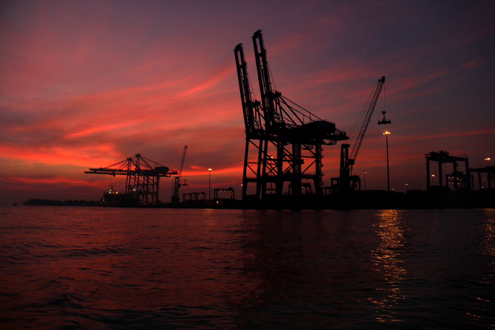 Vallarpadam Container Terminal